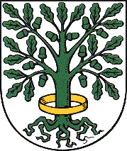 Coat of Arms of Dingelstädt